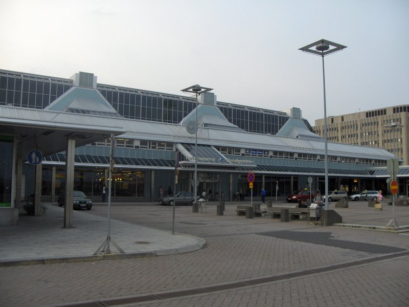 Pasila Railway Station in Helsinki, Finland.